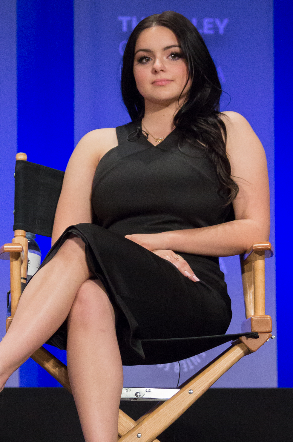 Actress Ariel Winter at the 2015 PaleyFest for the show "Modern Family"